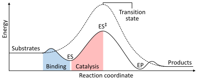 thermodynamics